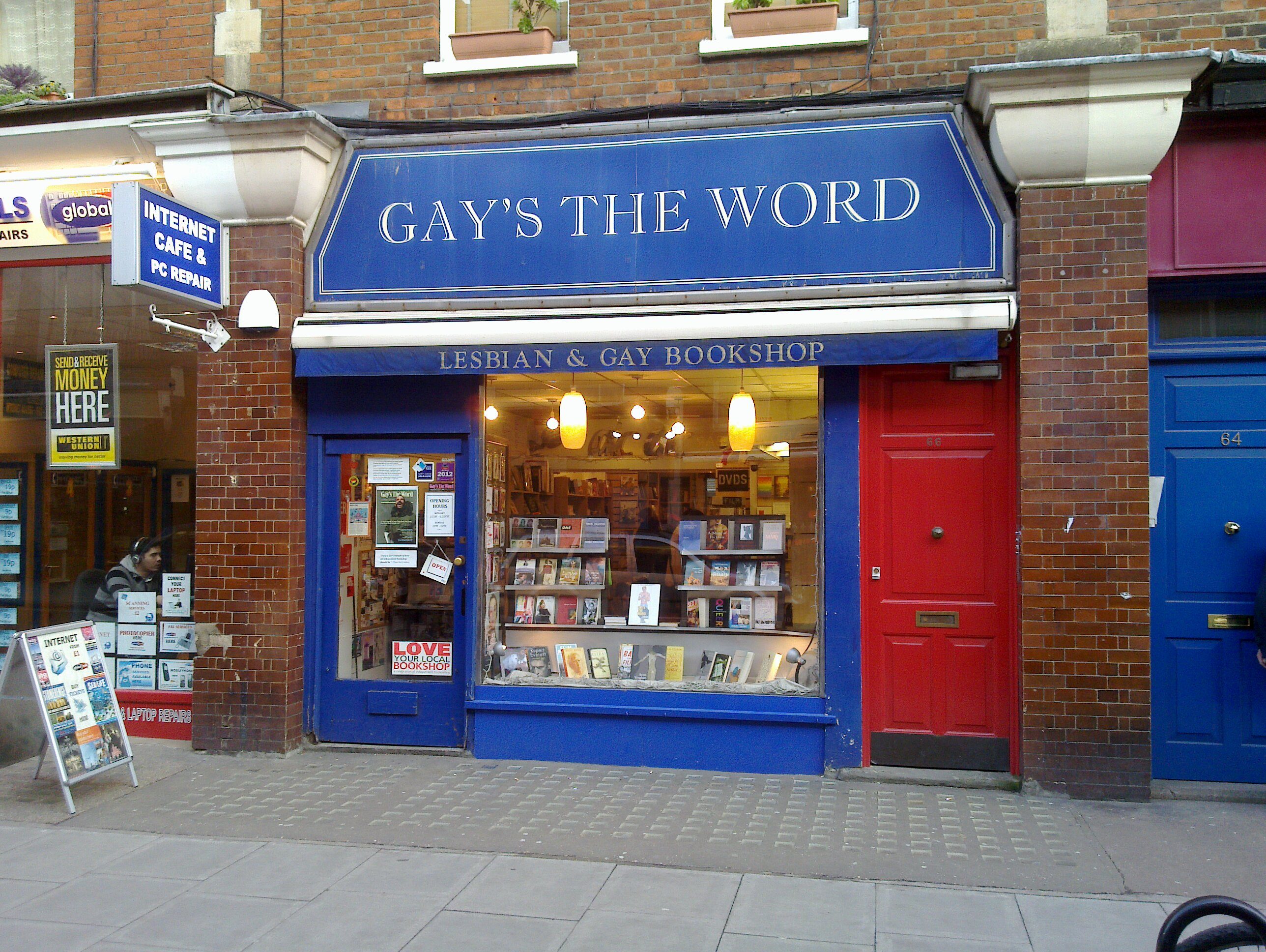 Gay's the Word